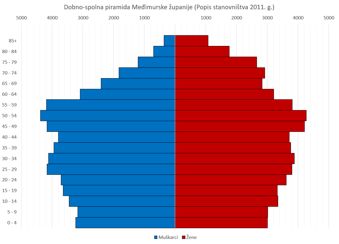 Population pyramid of Međimurje County. Version in Croatian. Data from 2011 Census; available at